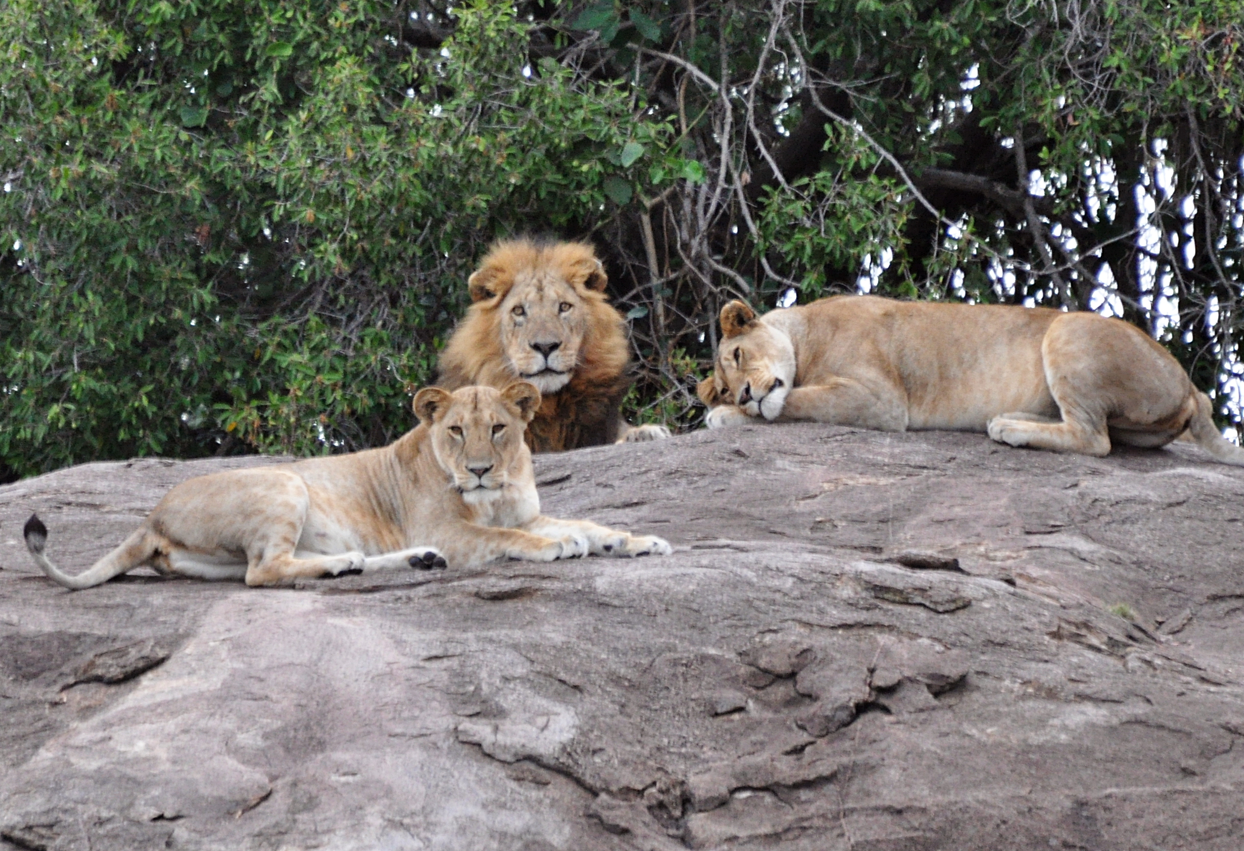 Pride Leader of the "Nomad" pride in the northern Serengeti, near Masai Mara border